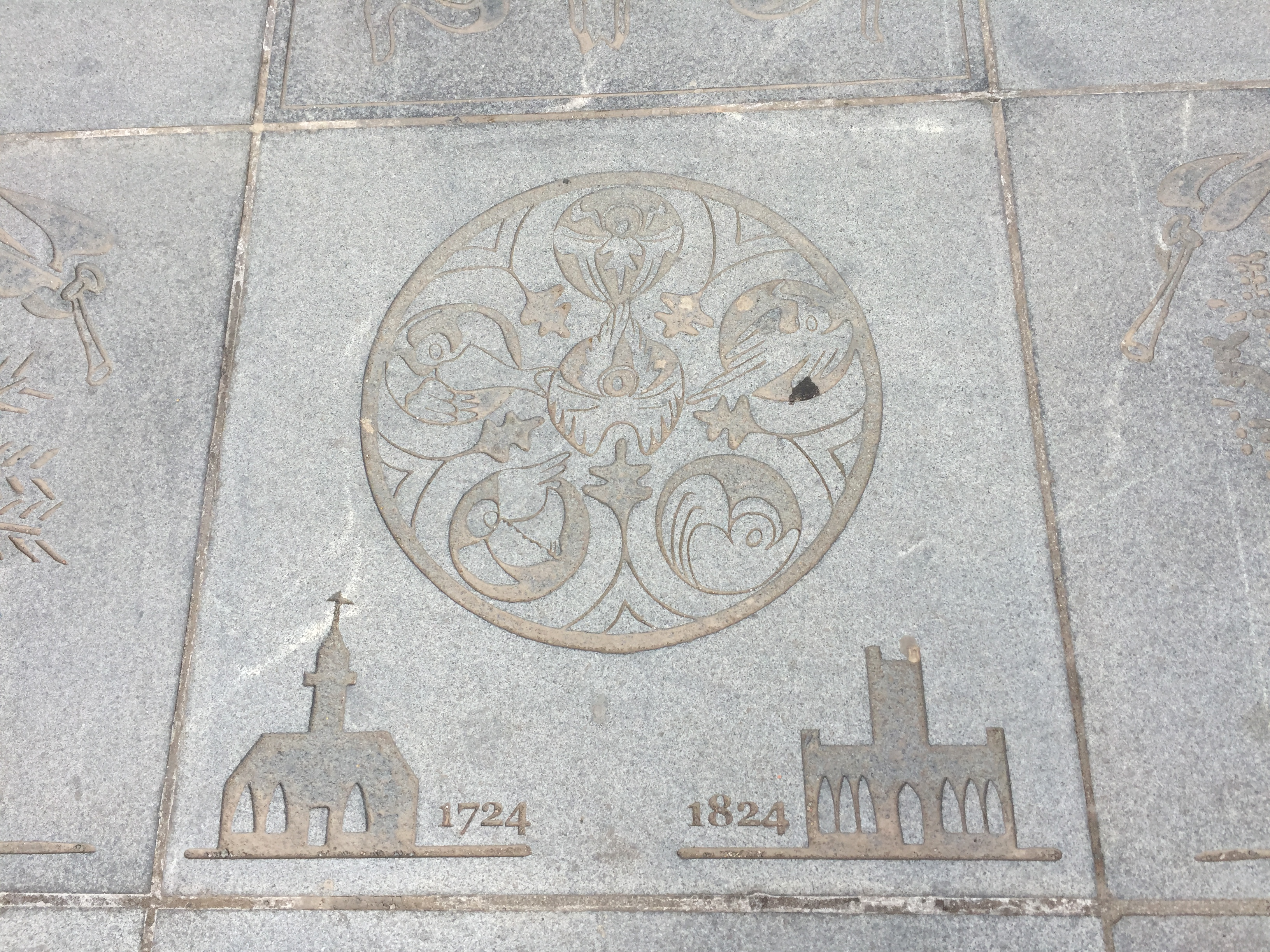 Etching in pavement outside the Ramshorn Theatre in Glasgow, Scotland. Artist is Kate Robinson. This etching shows the Church Silhouettes This file was uploaded as part of an event during the 2018 Open The Door Festival in Glasgow. Partners were Wikimedia UK, and the Scottish Library and Information Council. This tag does not indicate the copyright status of the attached work. A normal copyright tag is still required. See Commons:Licensing for more information.